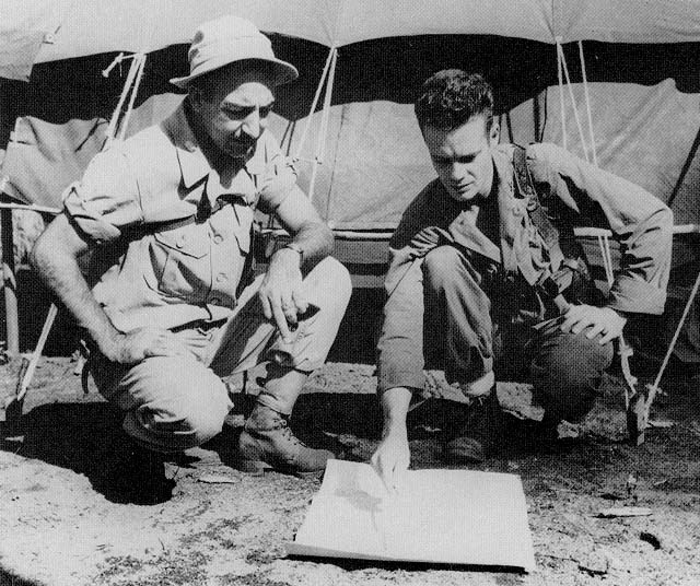 Lt. Col. Henry Mucci, commander 6th Ranger Regiment with his personnel officer, Capt. Vaughn Moss.